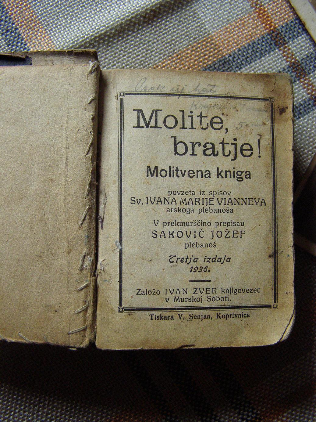 Molite bratje! – Prekmurian prayer-book in 1936, by József Szakovics